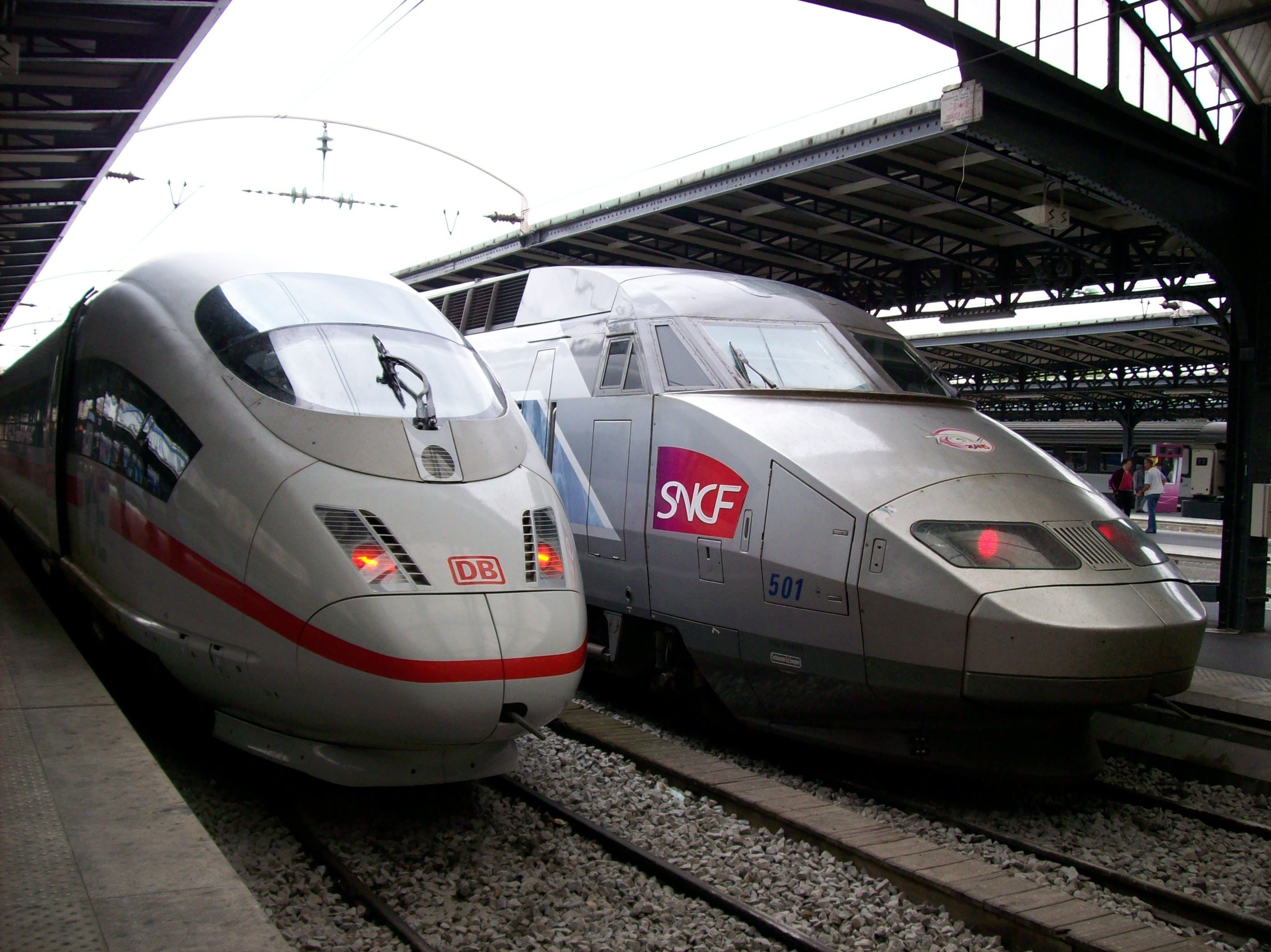 ICE and TGV together. Picture made at Gare de l'est - Paris